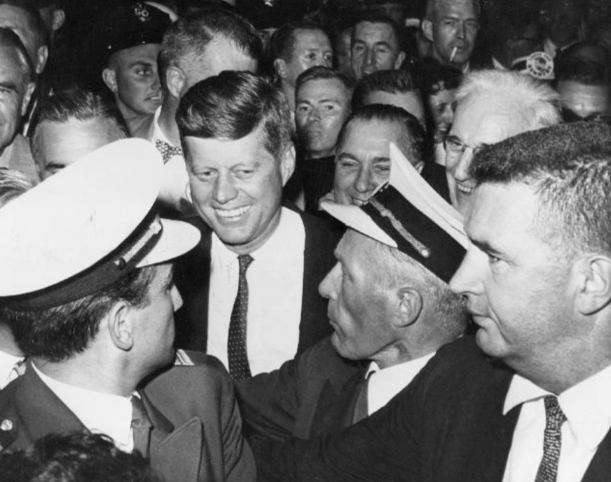 Photo of John F. Kennedy arriving at the Democratic National Convention in Los Angeles in 1960. The delegates had just nominated him as the Democratic presidential candidate for 1960. Richard J. Daley, mayor of Chicago, can be seen behind Senator Kennedy.